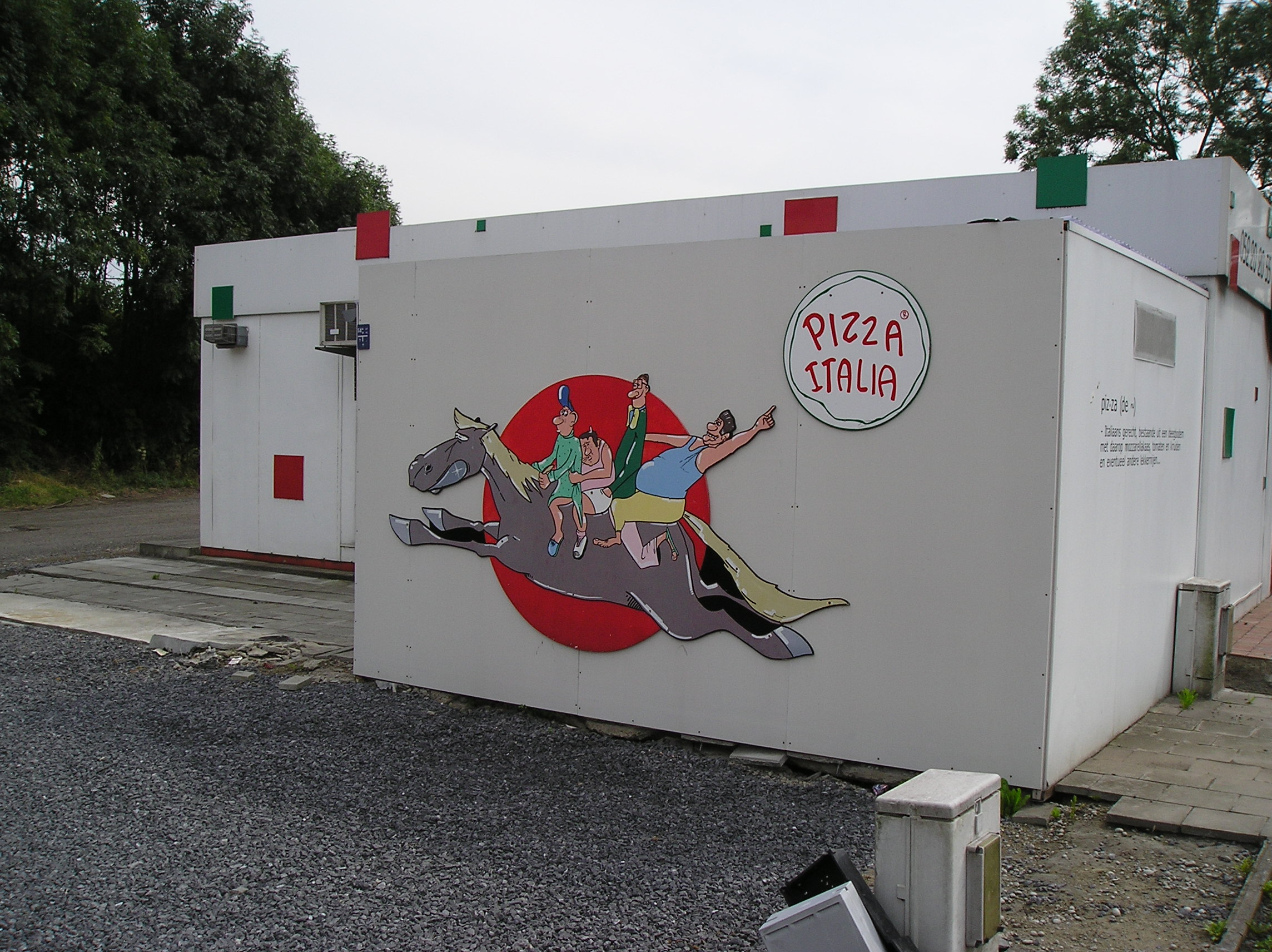 Modern interpretation of Ros Beiaard (mythological horse, according to the legend, it could carry four knights) on the wall of pizzeria in Dendermonde (Belgium). This pizzeria is situated near the intersection of Mechelsesteenweg street and Kroonveldlaan street..